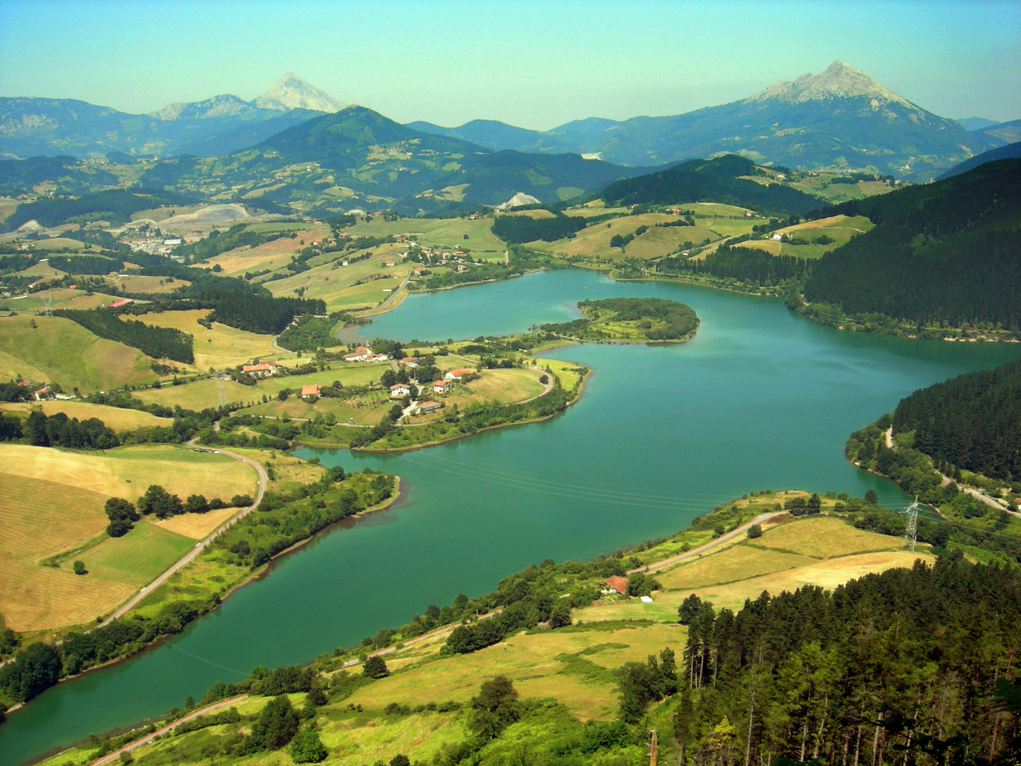 Urkulu reservoir